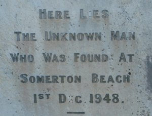 Tombstone of The Somerton Man found at Somerton Beach, Adelaide, at his gravesite. He died 1 December 1948 and was buried on 14 June 1949.